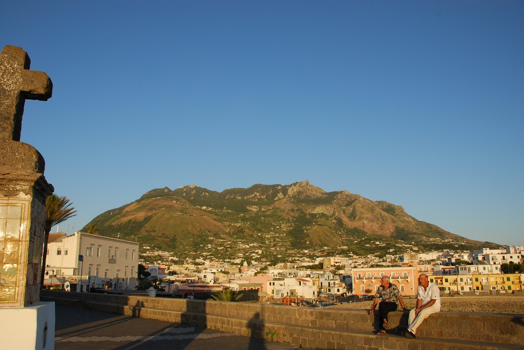 Epomeo is the ancient Ischia isle dormant volcano.